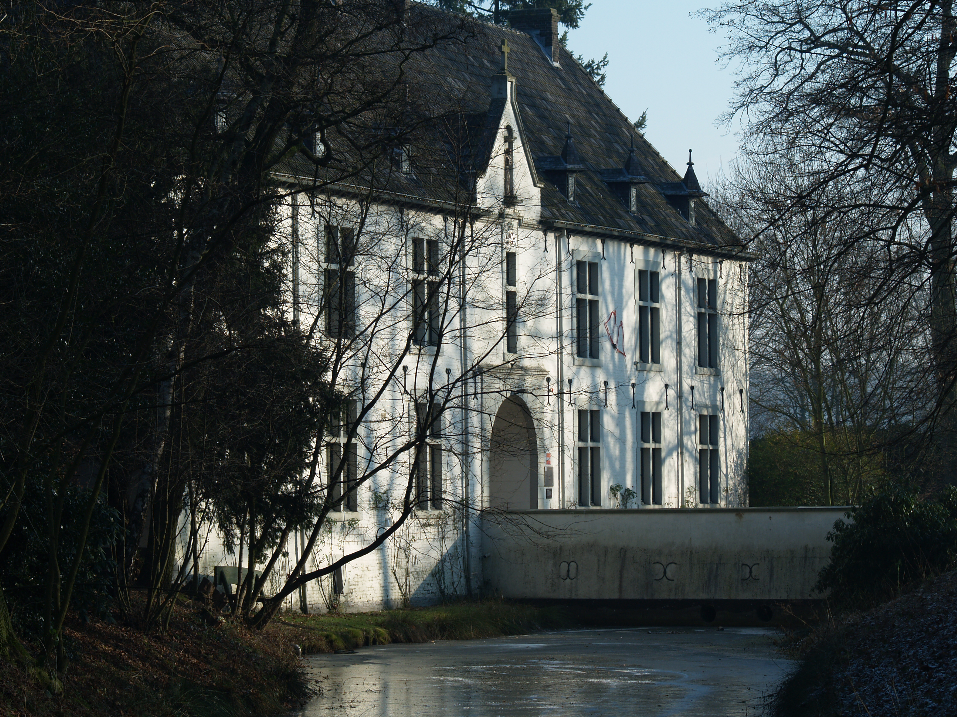 Castle De Berckt